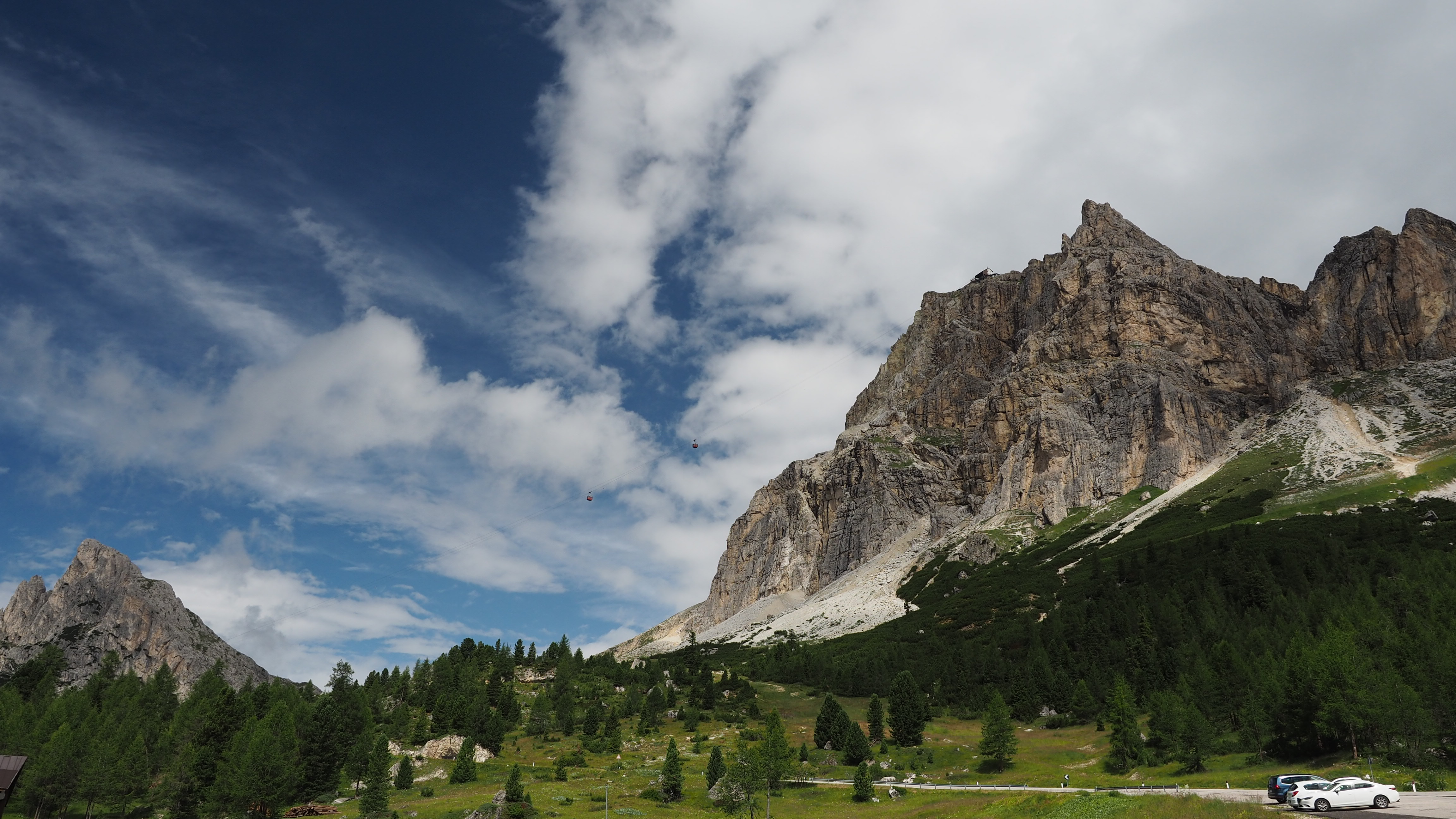 Lagazuoi and Sass de Stria